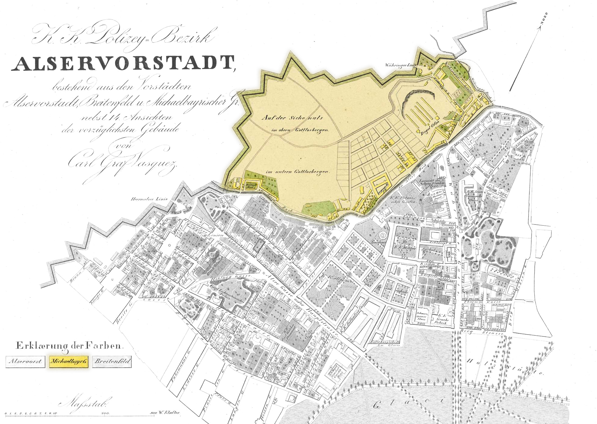 Map of Vienna / Michelbeuern, approx. 1830